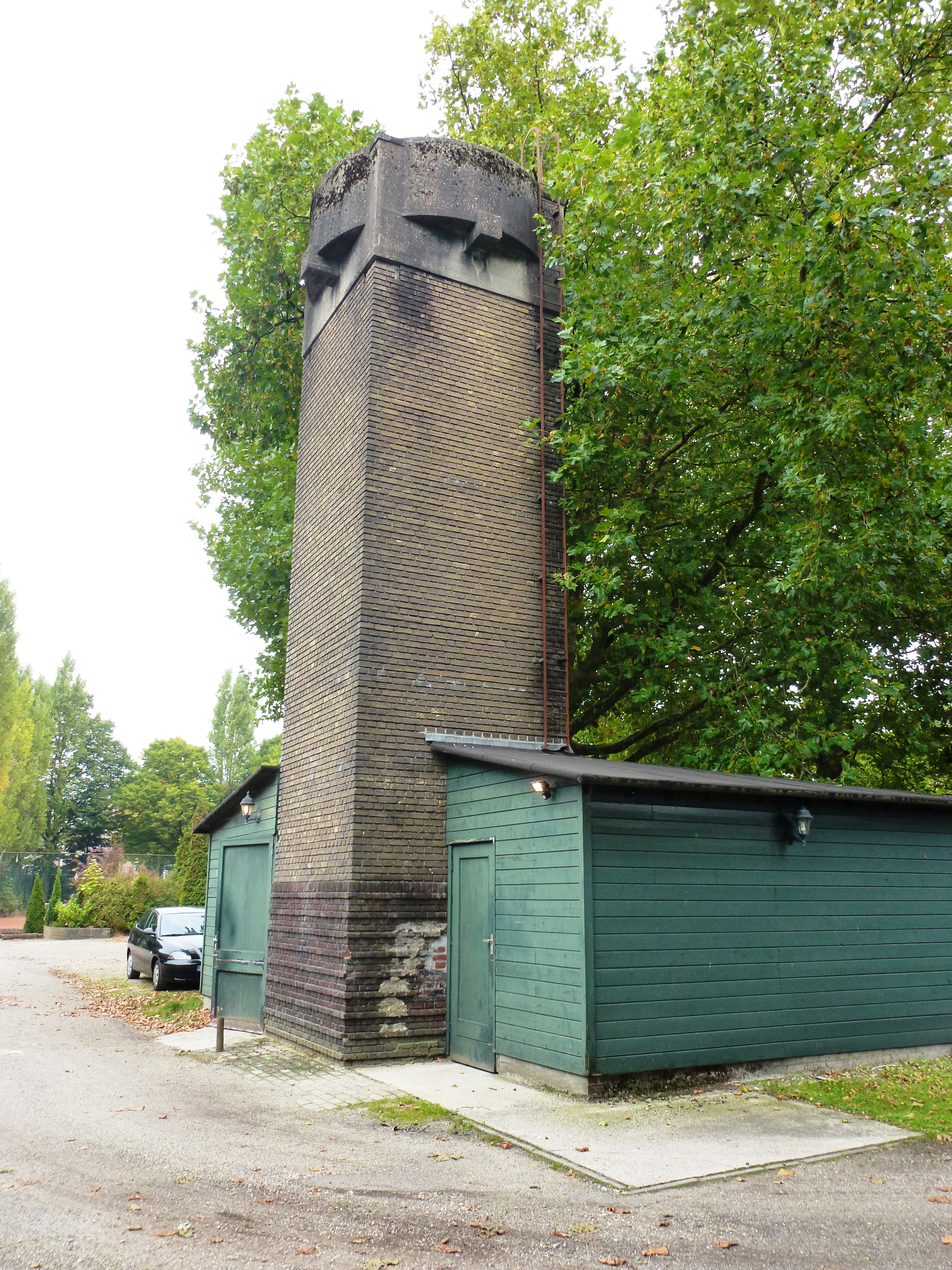 Nijmegen Goffertpark, de watertoren (bij Goffertweg 17)